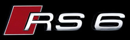 Audi RS6 emblema